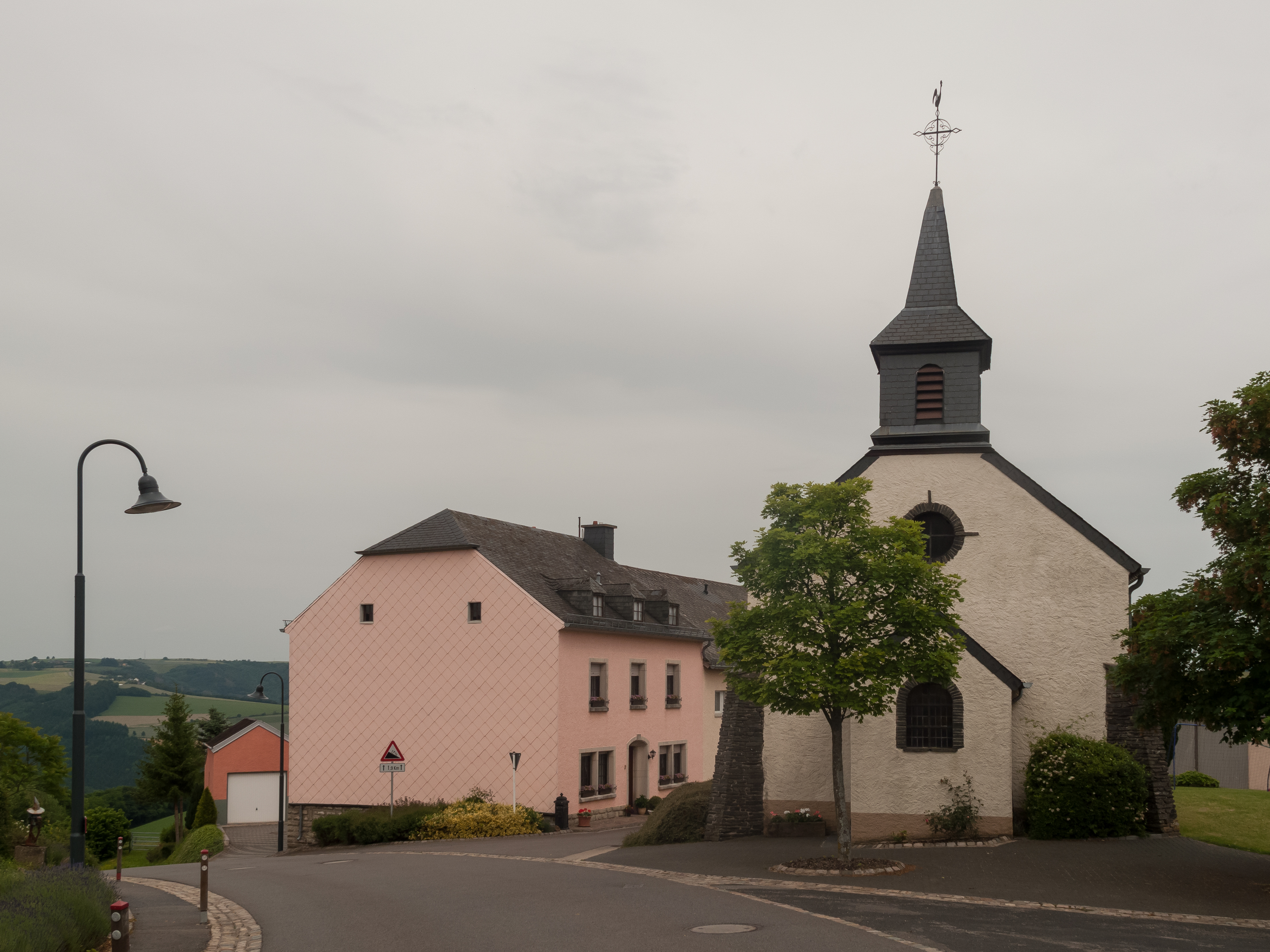 Putscheid, chapel in the street